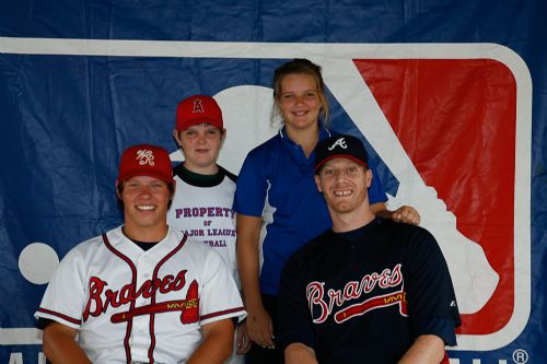 GCL Braves player James Linger and former Atlanta Braves pitcher Phil Stockman at Queensland's Training With the Pro's.